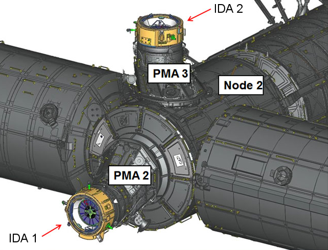 Expedition 42 U.S. Spacewalk Briefing Graphics for Tomas Gonzalez-Torres, Lead Expedition 42 Flight Director.